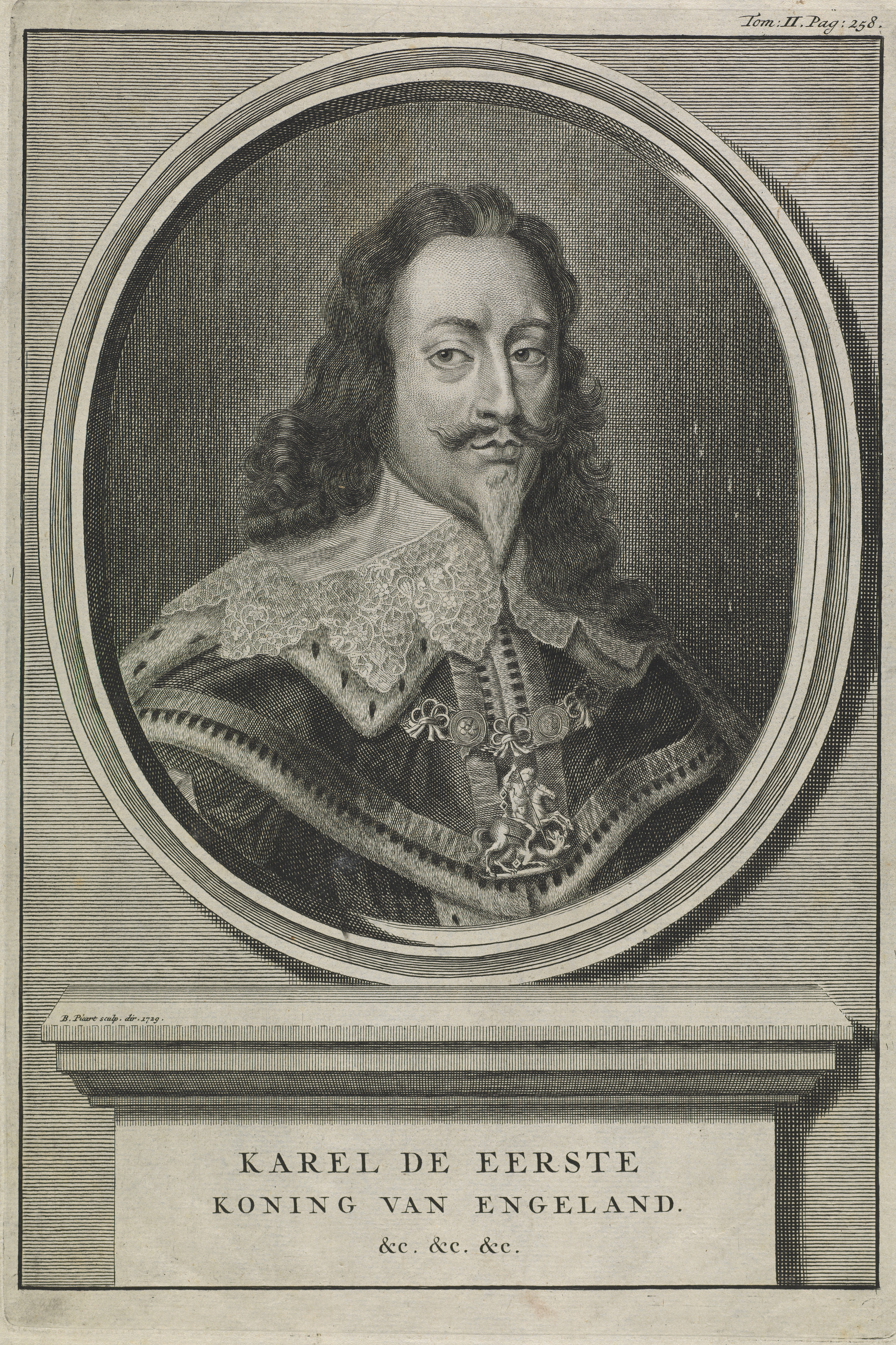 King Charles I. Engraving by B. Picart, 1729, after A. van Dyck. Iconographic Collections Keywords: King; King Charles I; Bernard Picart; Royalty; Portrait; Anthony Van Dyck